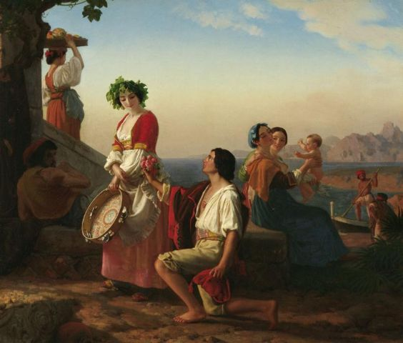 Depiction of classic "one-knee" marriage proposal among an idealized peasantry.